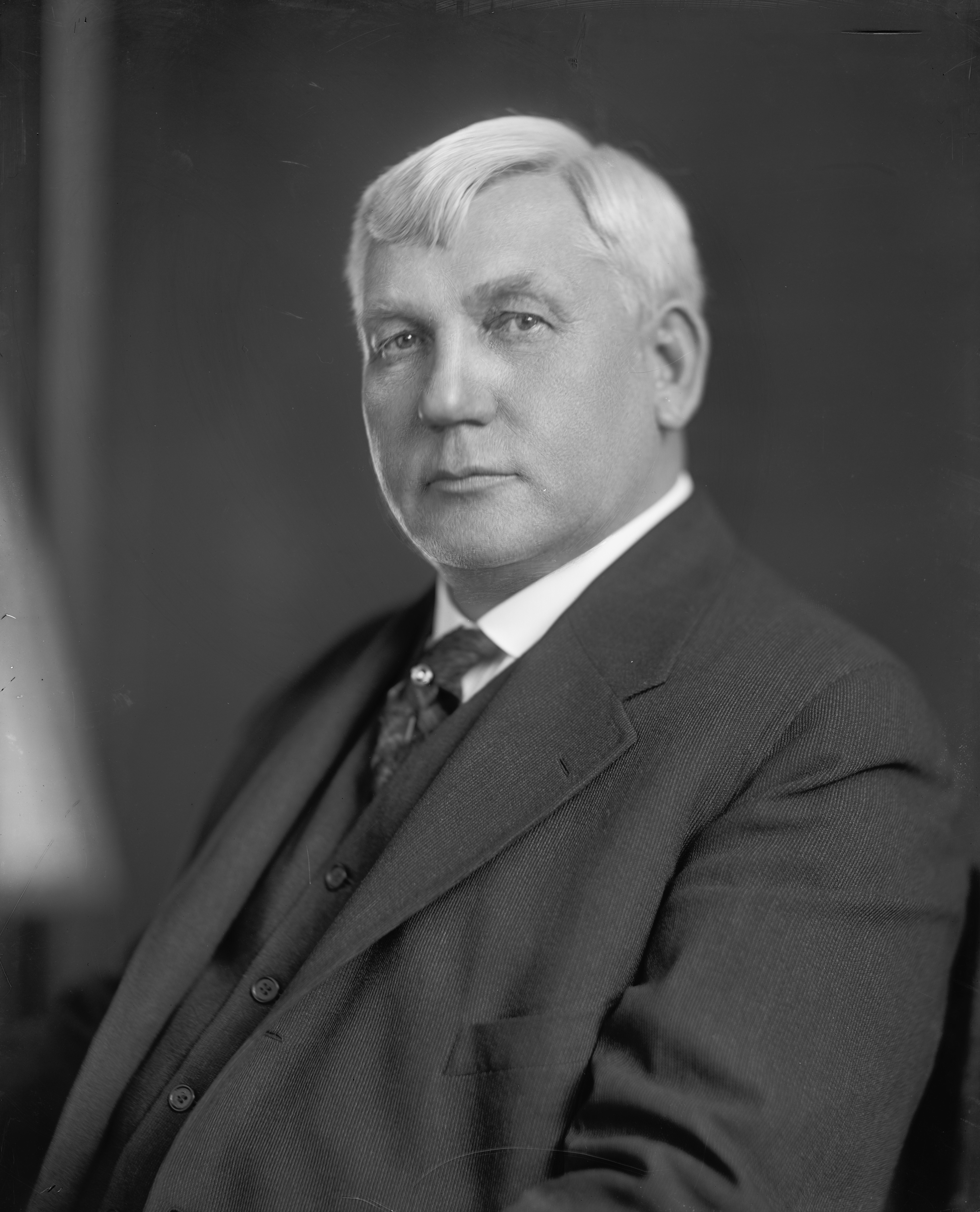 Title: HAUGEN, G.N. HONORABLE Abstract/medium: 1 negative : glass ; 8 x 10 in. or smaller